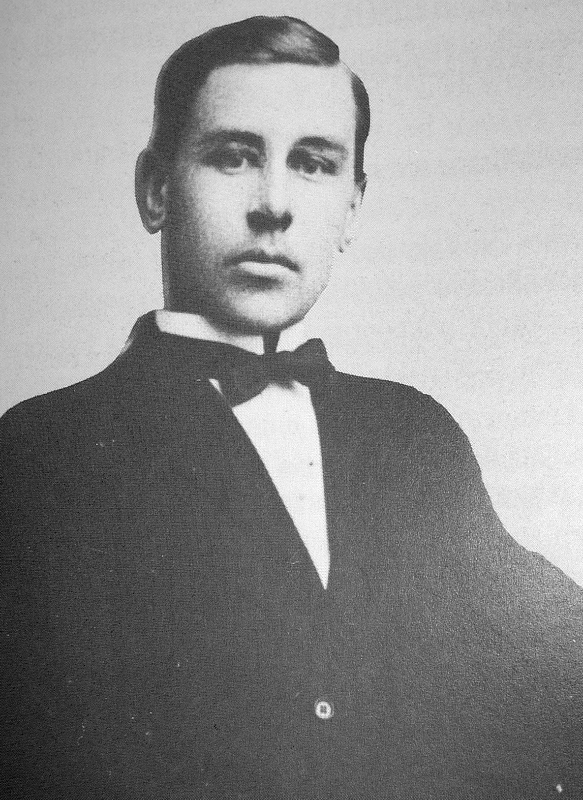 Finnish red leader Emil Elo